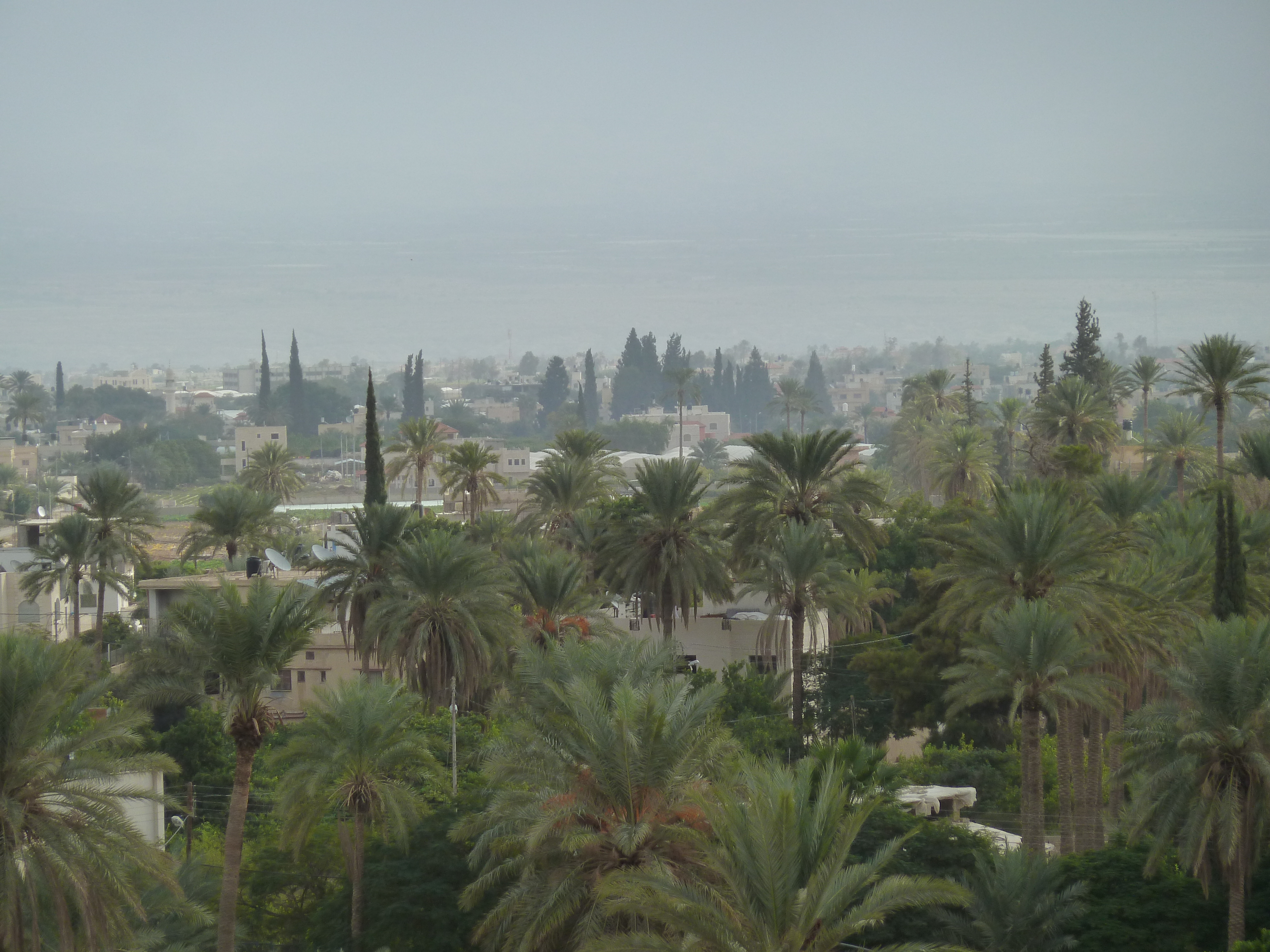 Jericho - City of the Moon, City of Palms - in a rainy day